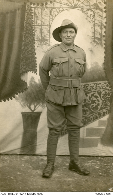 Studio portrait of 1882 Private (Pte) Edward Henry Baird, 47th Battalion, of Sydney, NSW. A boot finisher prior to enlistment, he embarked from Brisbane, Qld with the 3rd Reinforcements on board HMAT Clan Macgillivray (A46) on 1 May 1916. Pte Baird was killed in action at Passchendaele, Ypres, Belgium on 12 October 1917. He has no known grave and his name is commemorated on the The Ypres (Menin Gate) Memorial, Belgium. His brother 6295 Pte Thomas Robert Baird, 26th Battalion, returned to Australia on 27 September 1917.